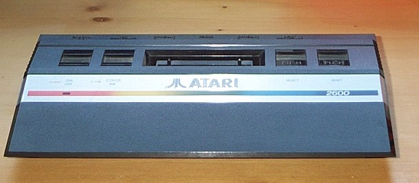 Picture of a later-model Atari VCS 2600, also known as the "2600 Jr."